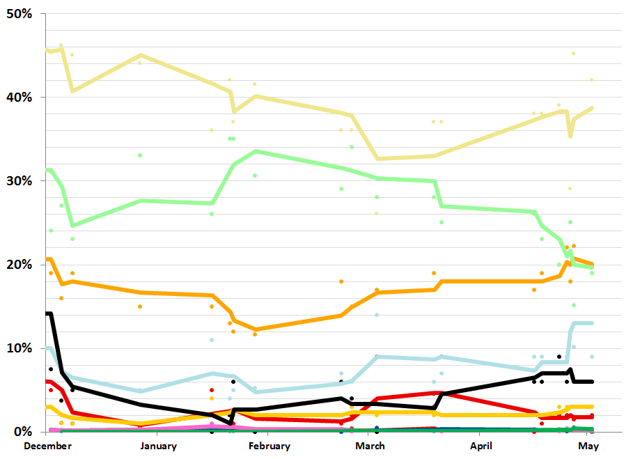 Polling for Philippine presidential election with a 3-period moving average.